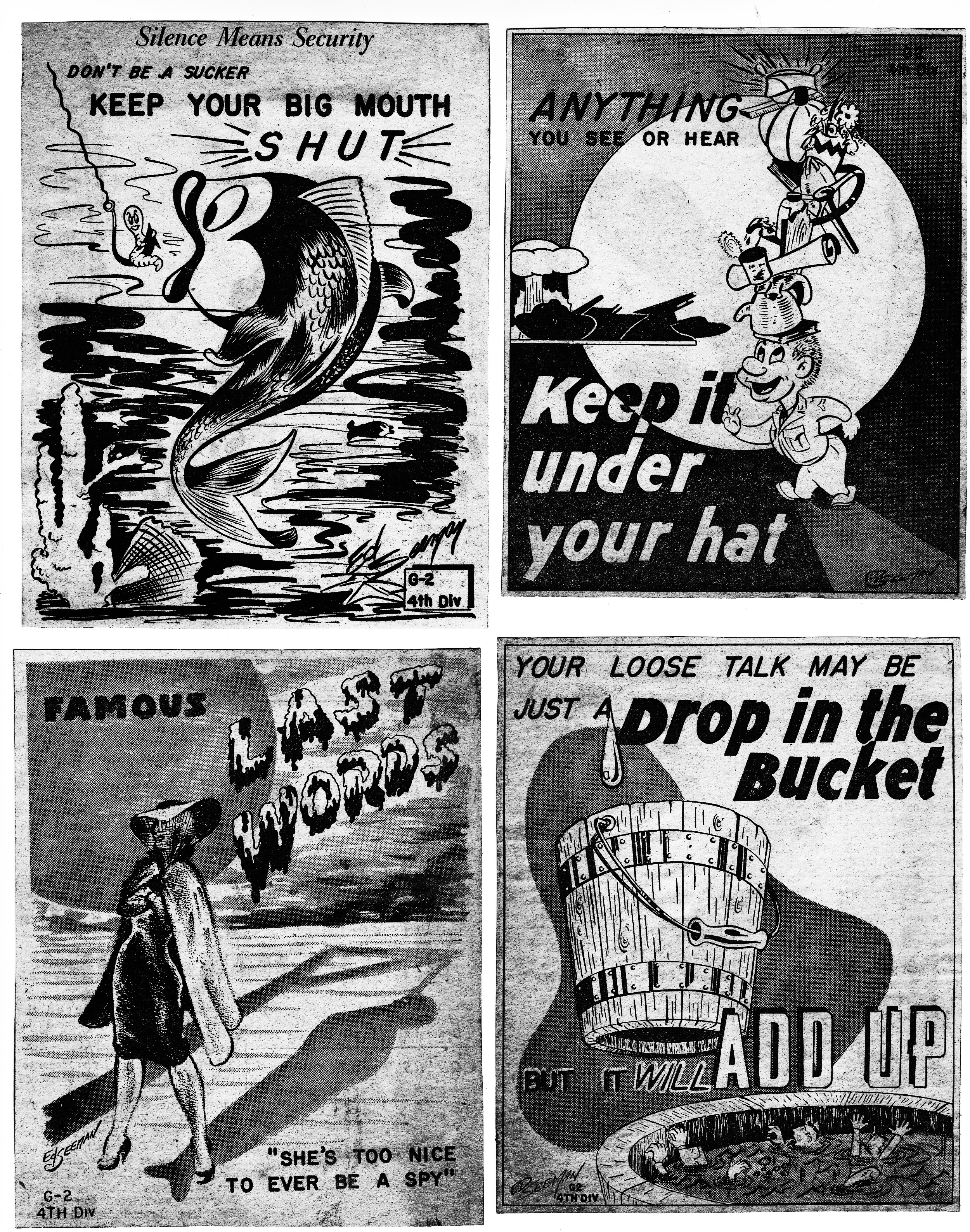 Security adds for operations security (OPSEC), made by Corporal Ed Seeman c. 1952-1953 for the G2, 4th Infantry Division in Frankfort am Main, Germany.